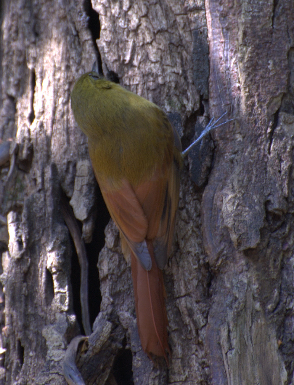 Olivaceous Woodcreeper (Sittasomus griseicapillus), the nominate subspecies. Horto Florestal de São Paulo